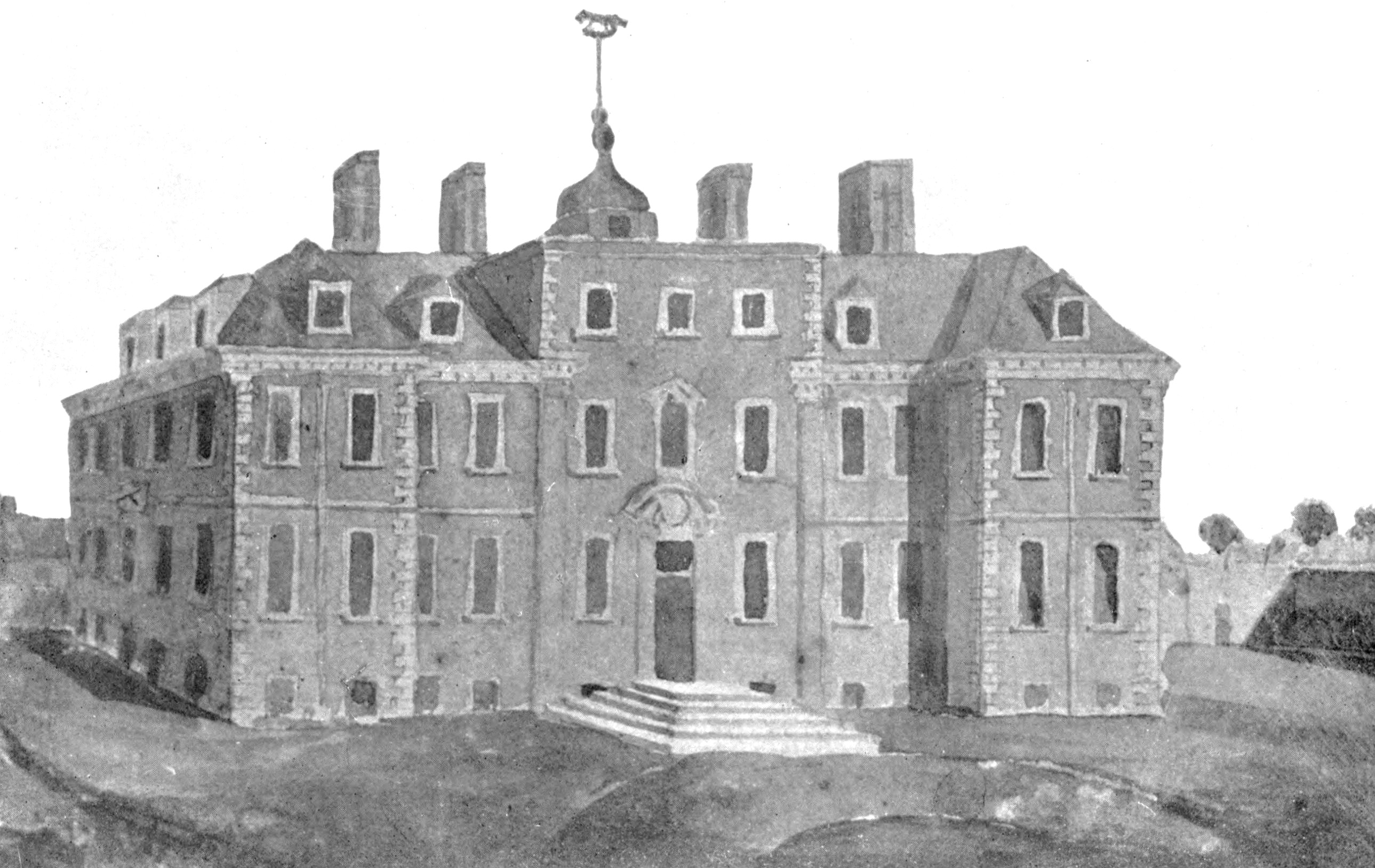 From a scanned version of Devonshire characters and strange events by Sabine Baring-Gould, published in 1908